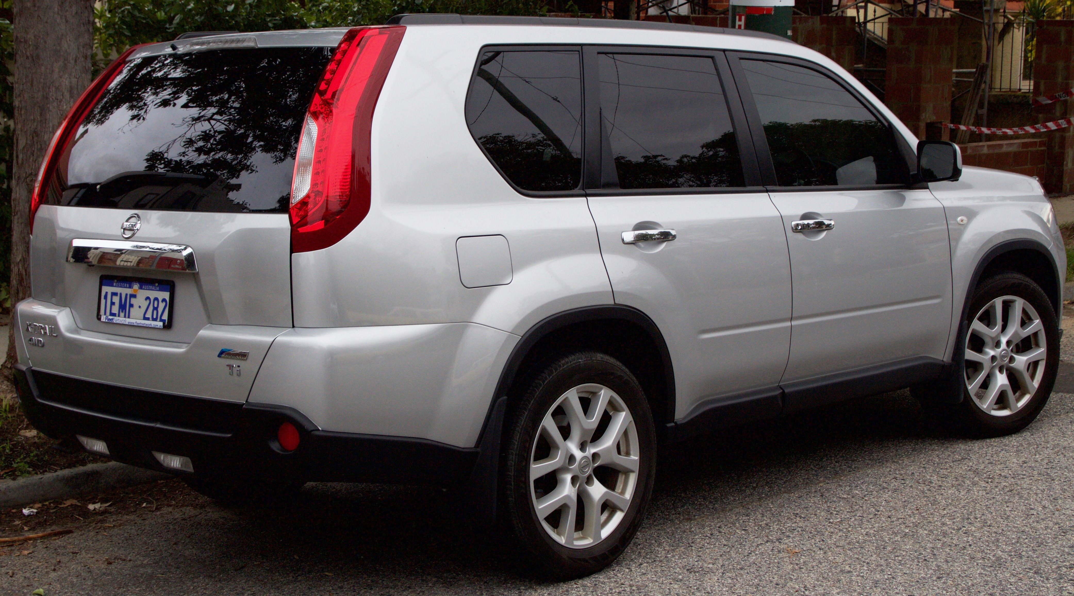 2010-2013 Nissan X-Trail (T31) Ti wagon. Photographed in West Leederville, Western Australia Australia.